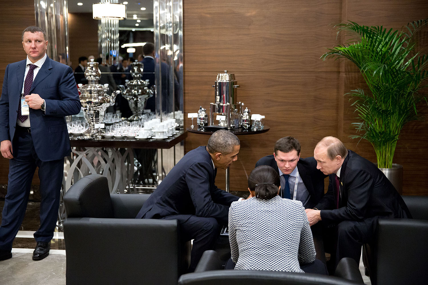 Nov. 15, 2015 "With a Russian security guard at left, the President meets with President Putin of Russia on the sidelines of the G20 Summit in Antalya, Turkey. National Security Advisor Susan E. Rice and a Russian interpreter sit alongside the two leaders." (Official White House Photo by Pete Souza)